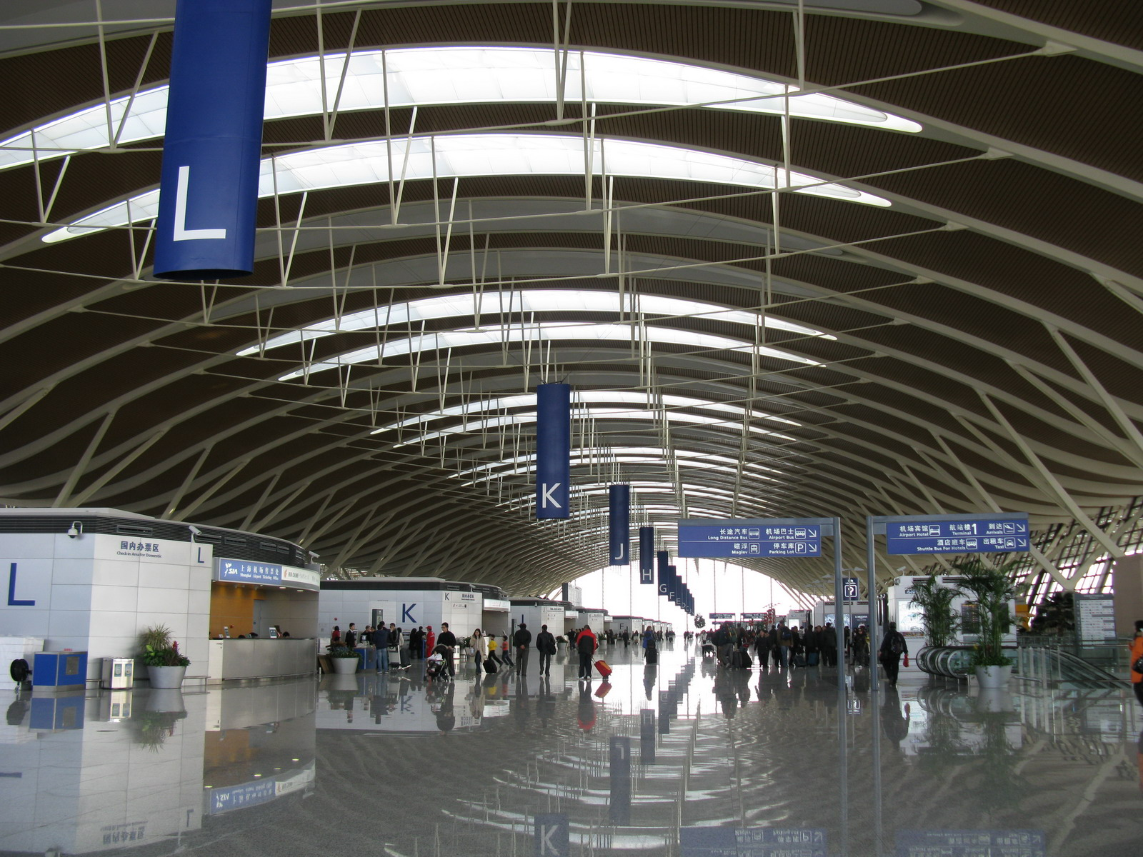 Shanghai Pudong International Airport Terminal 2